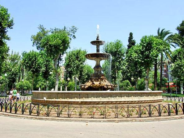 Fountain of Garden of Colón, in Córdoba (Spain)